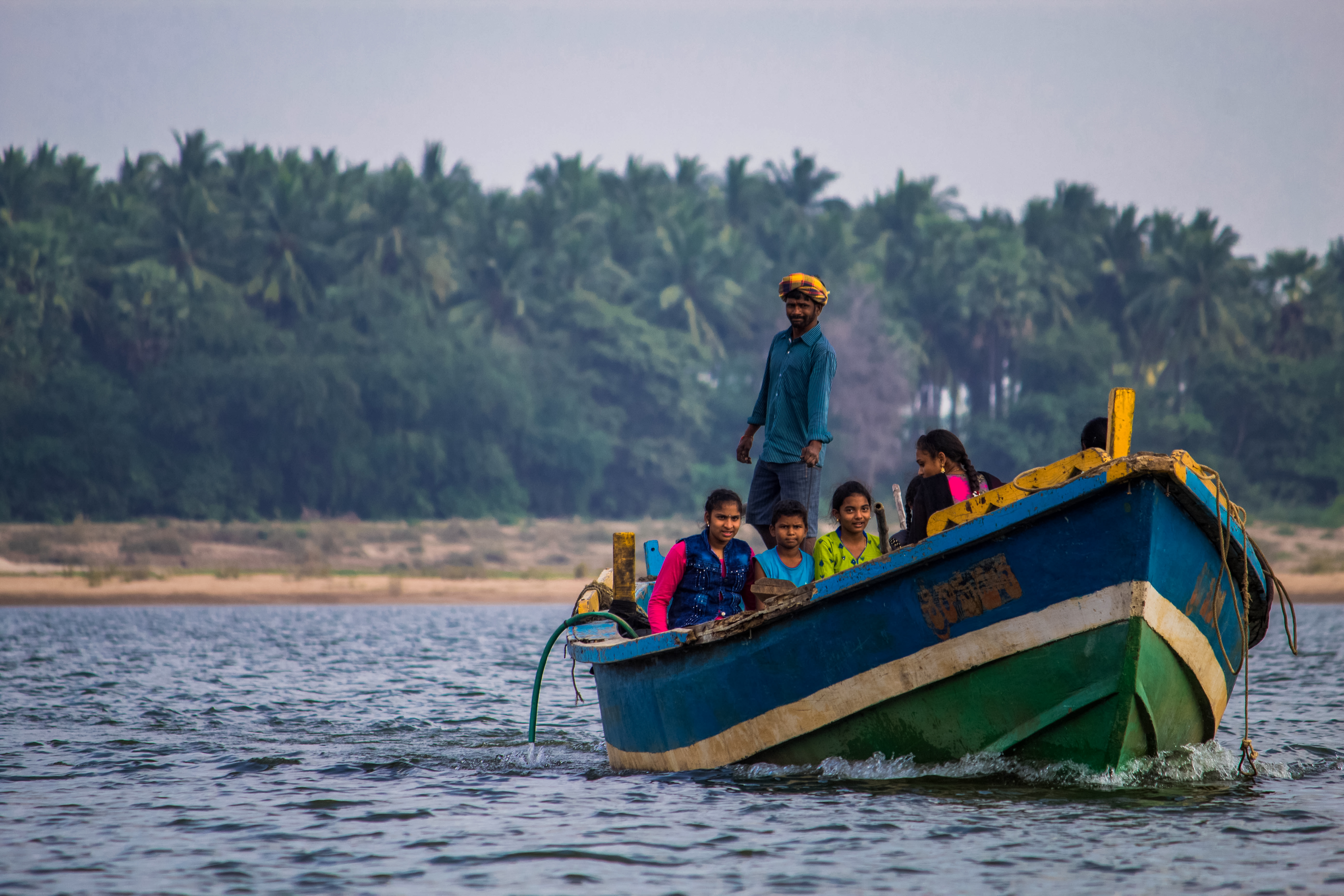 A boat near Masenamma Katta, Abbirajupalem in West Godavari